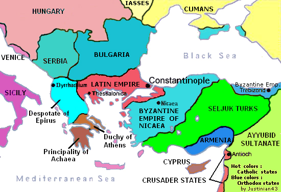 The Partition of the Byzantine Empire after 1215